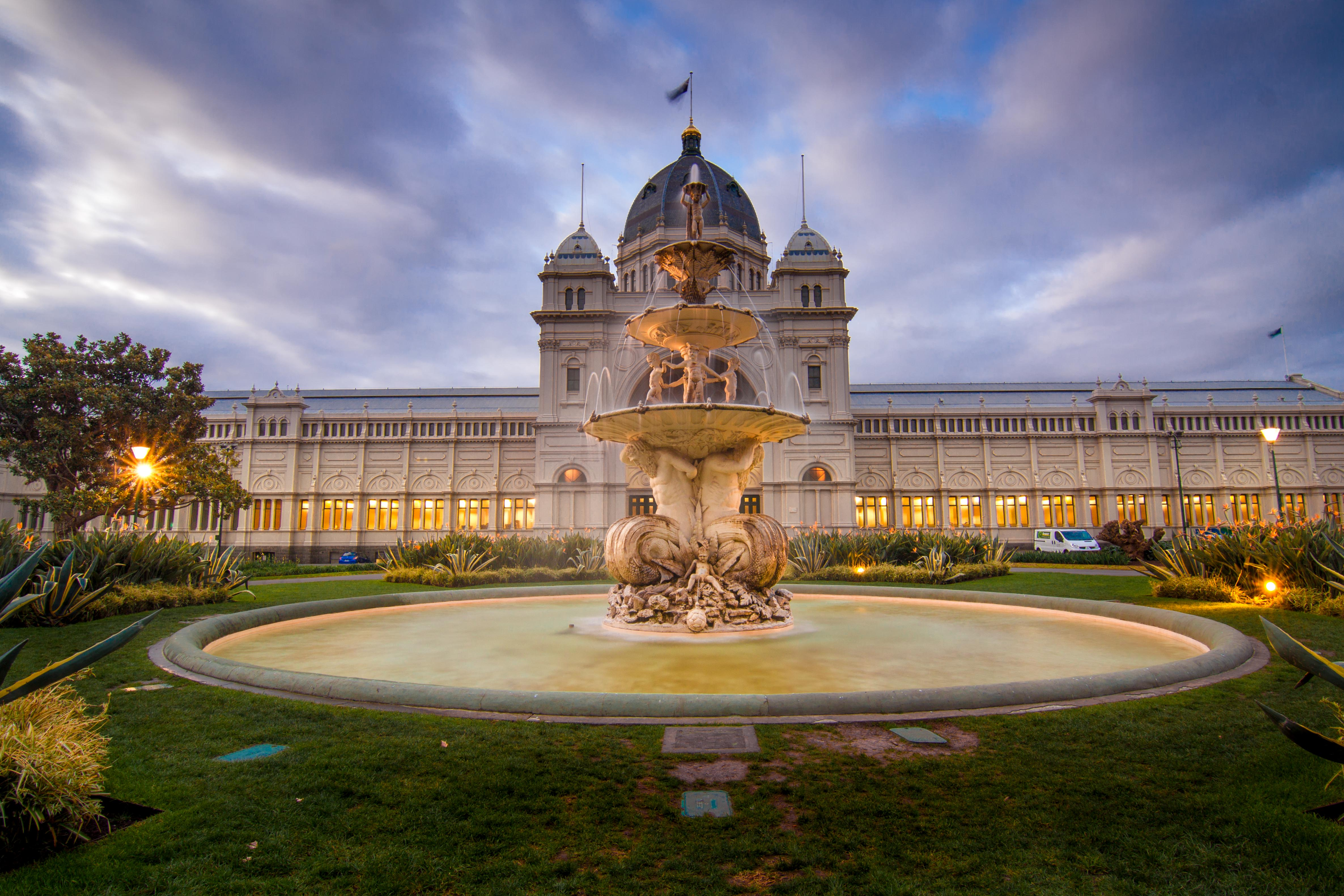 The world heritage site Royal Exhibition Building in Melbourne, Victoria.